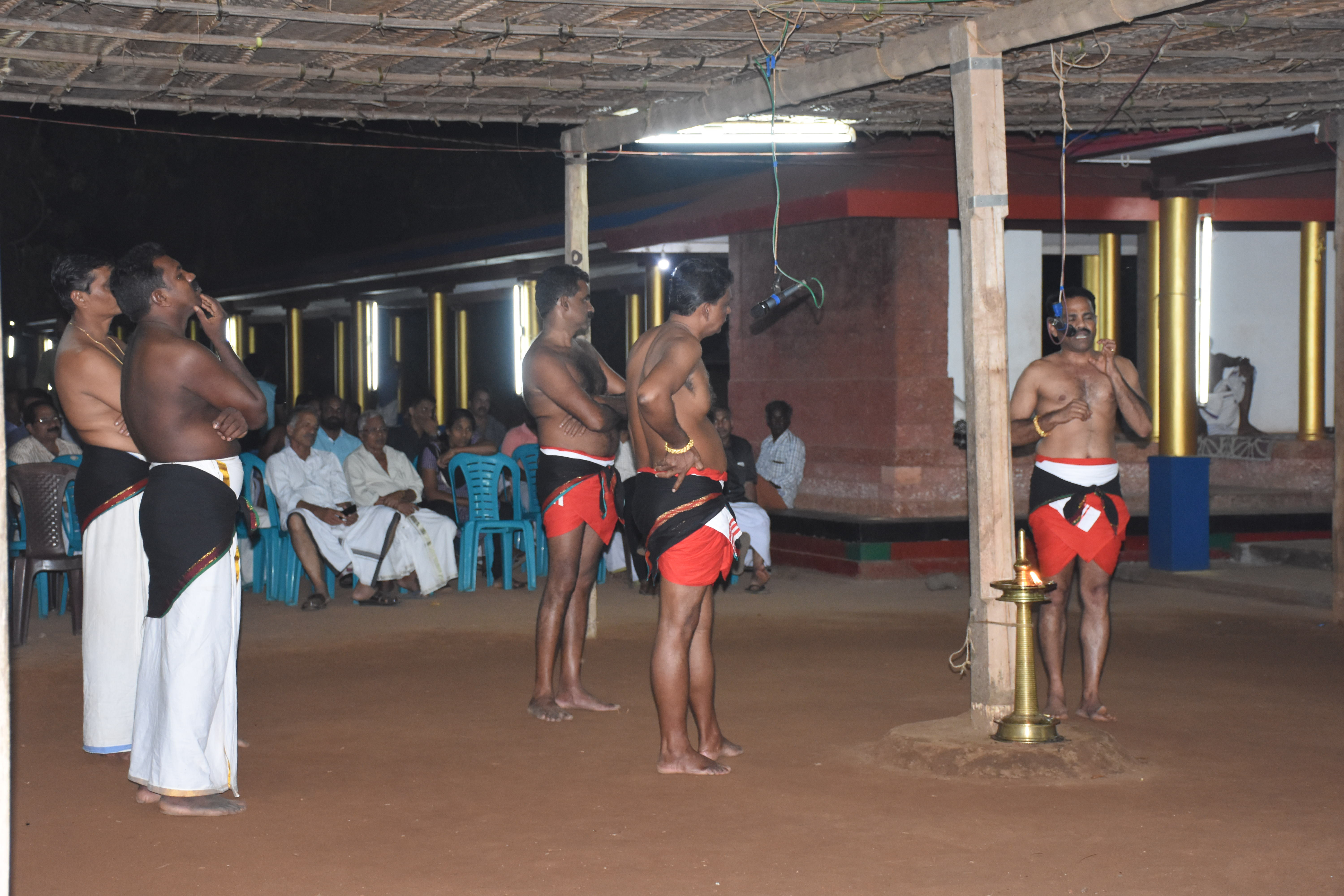 Performers are of Thiyya and Maniyani castes